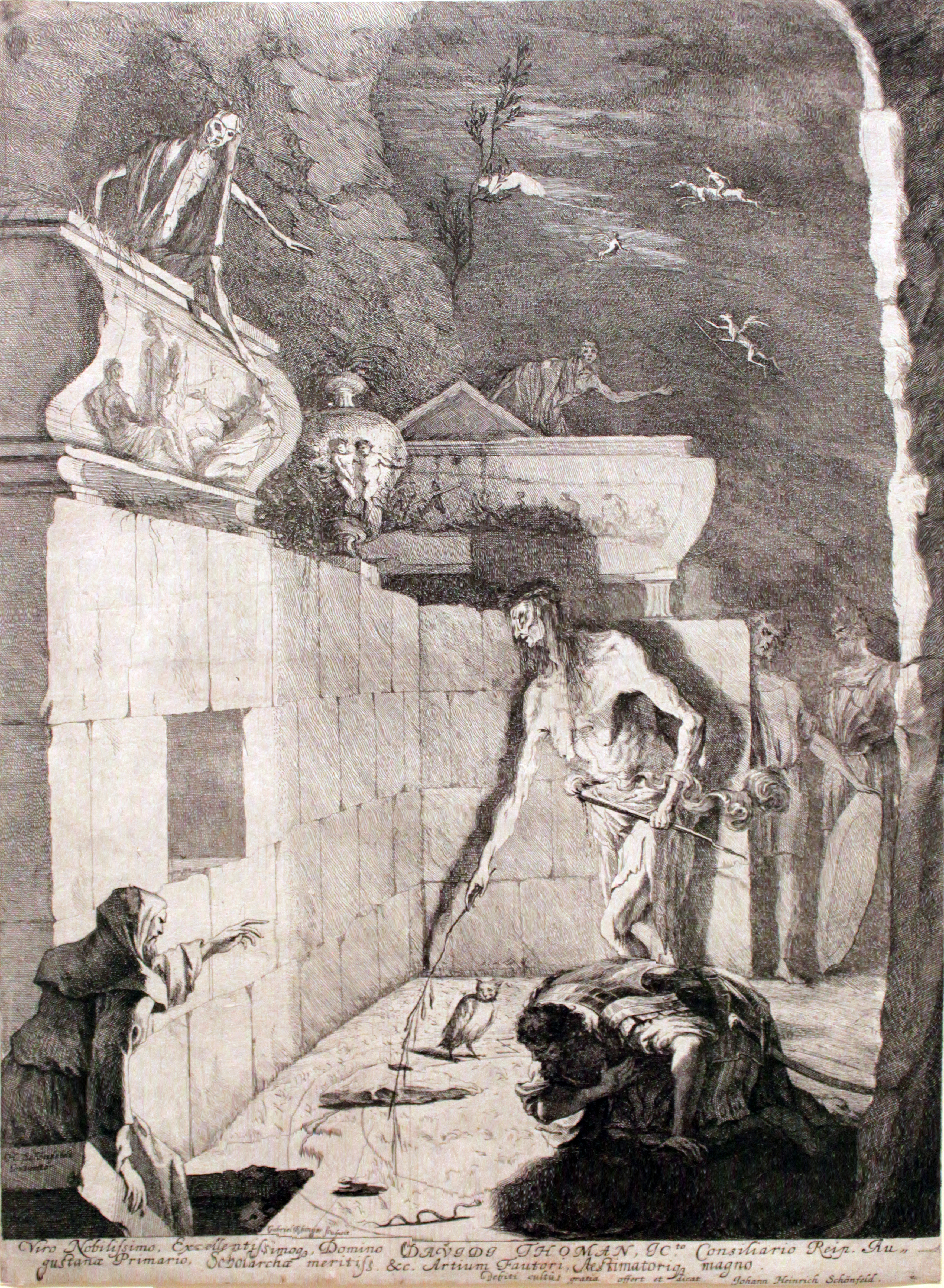 Saul Consulting the Spirit of Samuellabel QS:Len,"Saul Consulting the Spirit of Samuel" label QS:Lde,"Saul spricht mit Samuels Geist bei der Hexe von Endor"